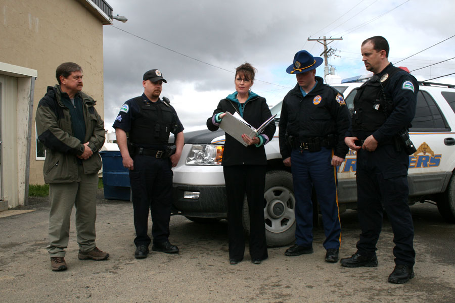 Alaska Public Safety Commissioner Walt Monegan (left) with Alaska State Troopers and Alaska Governor Sarah Palin (center).